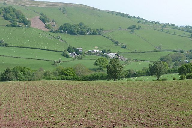 Towards Noyadd Sharmon, near to Maesmynis, Powys, Great Britain. The hamlet of Noyadd Sharmon stands out on the north side of the valley, with Moelfre behind. Unusually in these parts, here is an arable field.